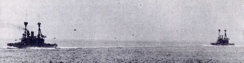 HMS Lord Nelson and HMS Agamemnon on patrol in the Dardanelles in 1915